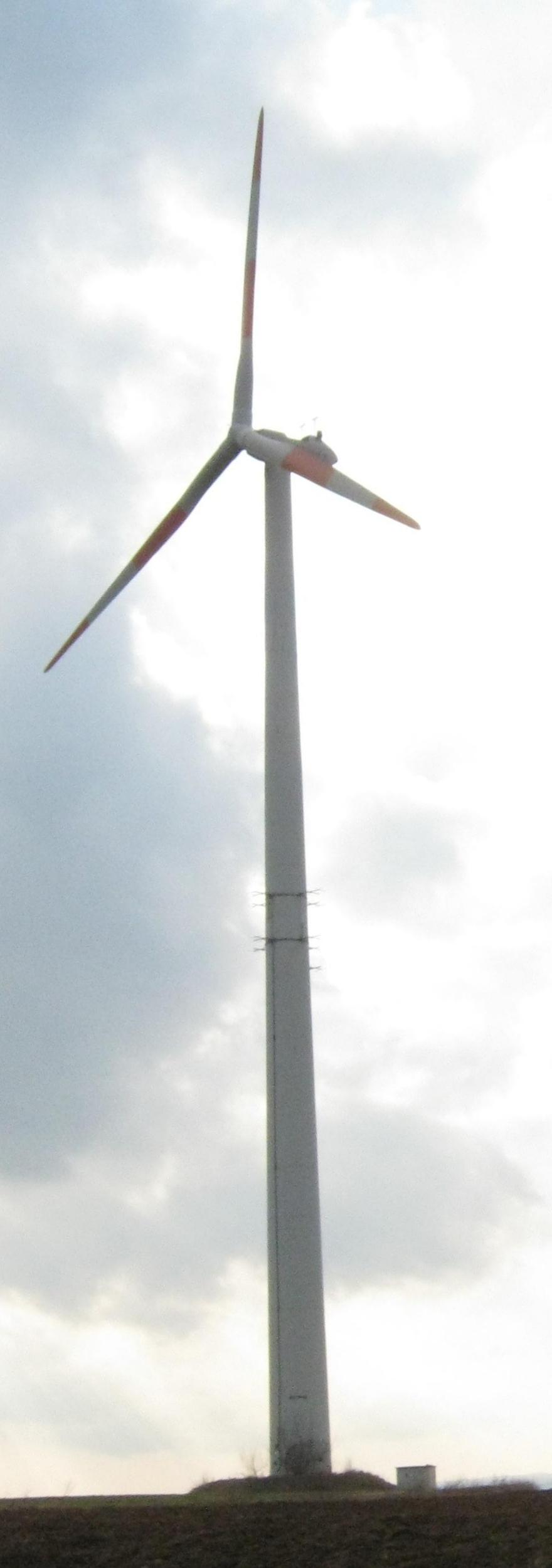 A 95 metres tall wind turbine near Zimmern ob Rottweil